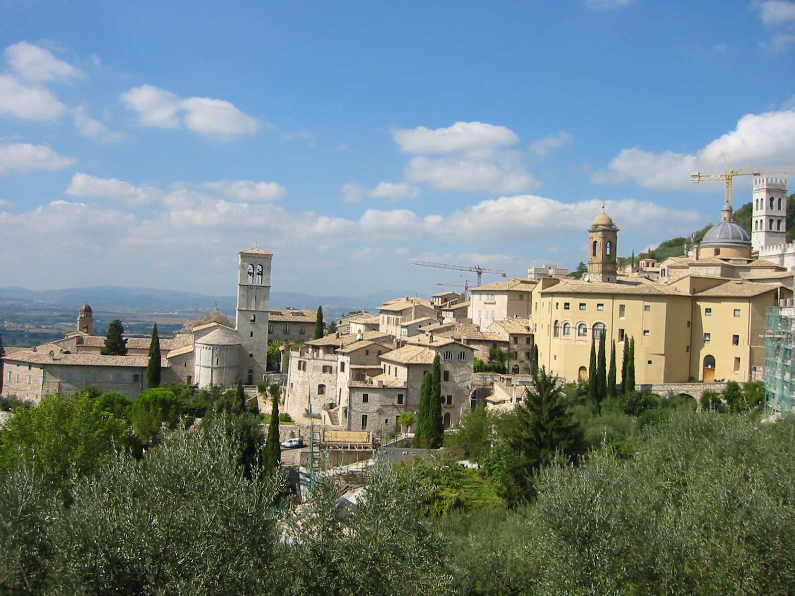 View on Assisi